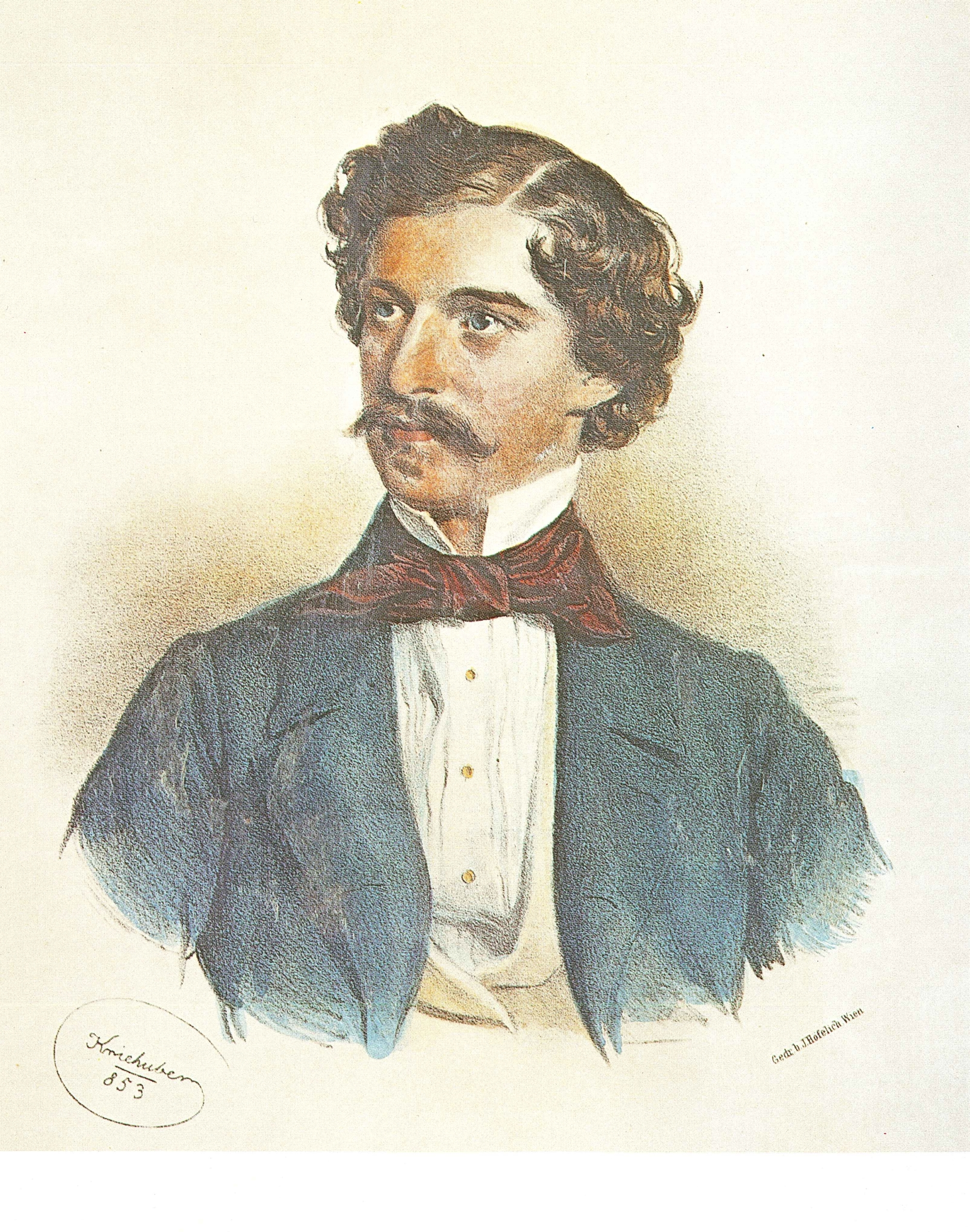 Austrian composer